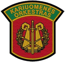 Нашивка Военного Оркестра Вооруженных сил Литвы